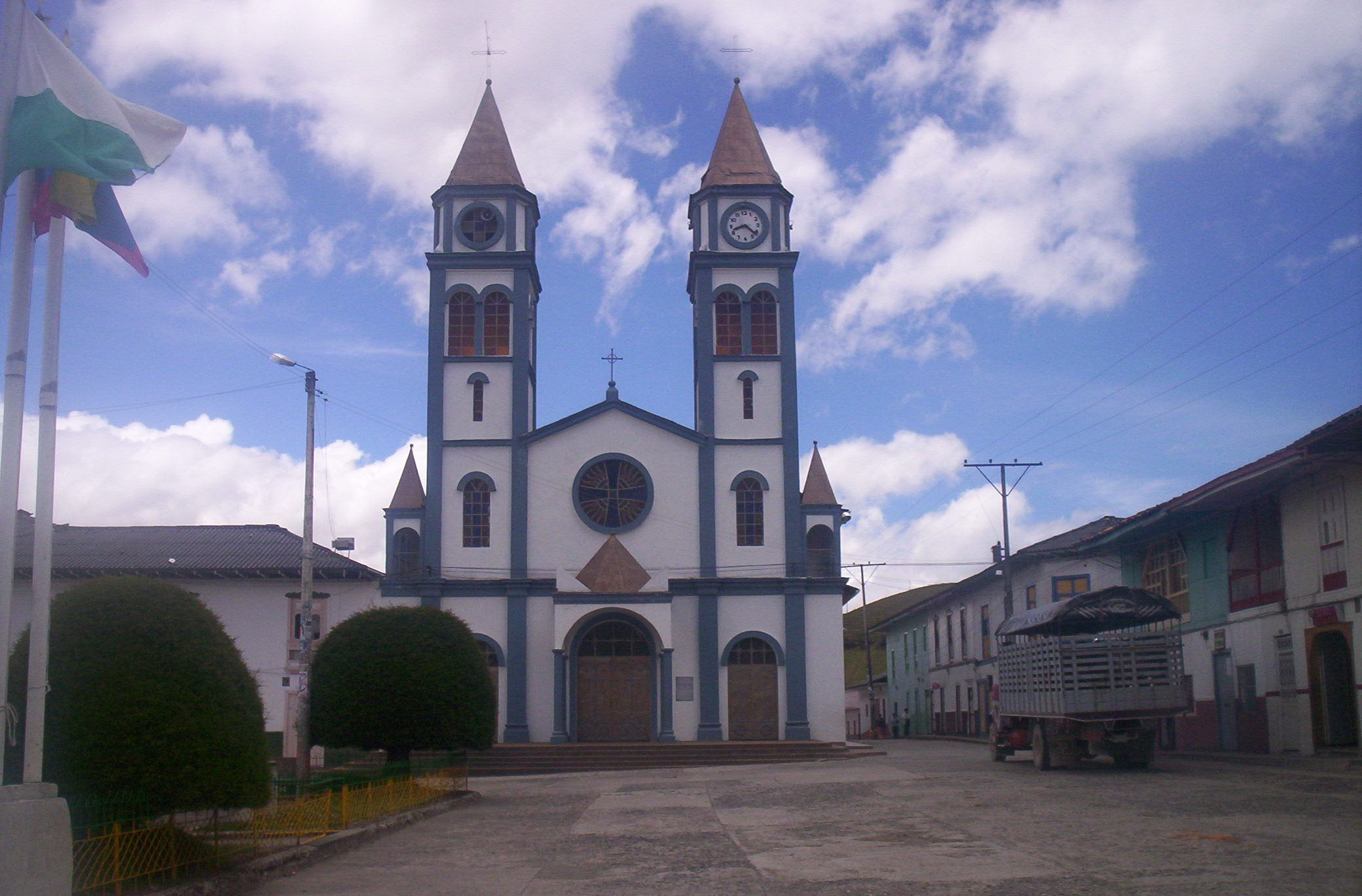 San Felix village in Salamina. Church in main plaza, Caldas, Columbia.